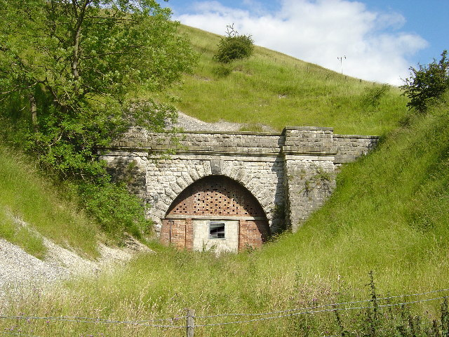 Burdale Tunnel, south of Wharram-le-Street, North Yorkshire, England.The SE entrance to Burdale Tunnel on the old Driffield to Malton line. Closed about 1960 it is now home to bats.